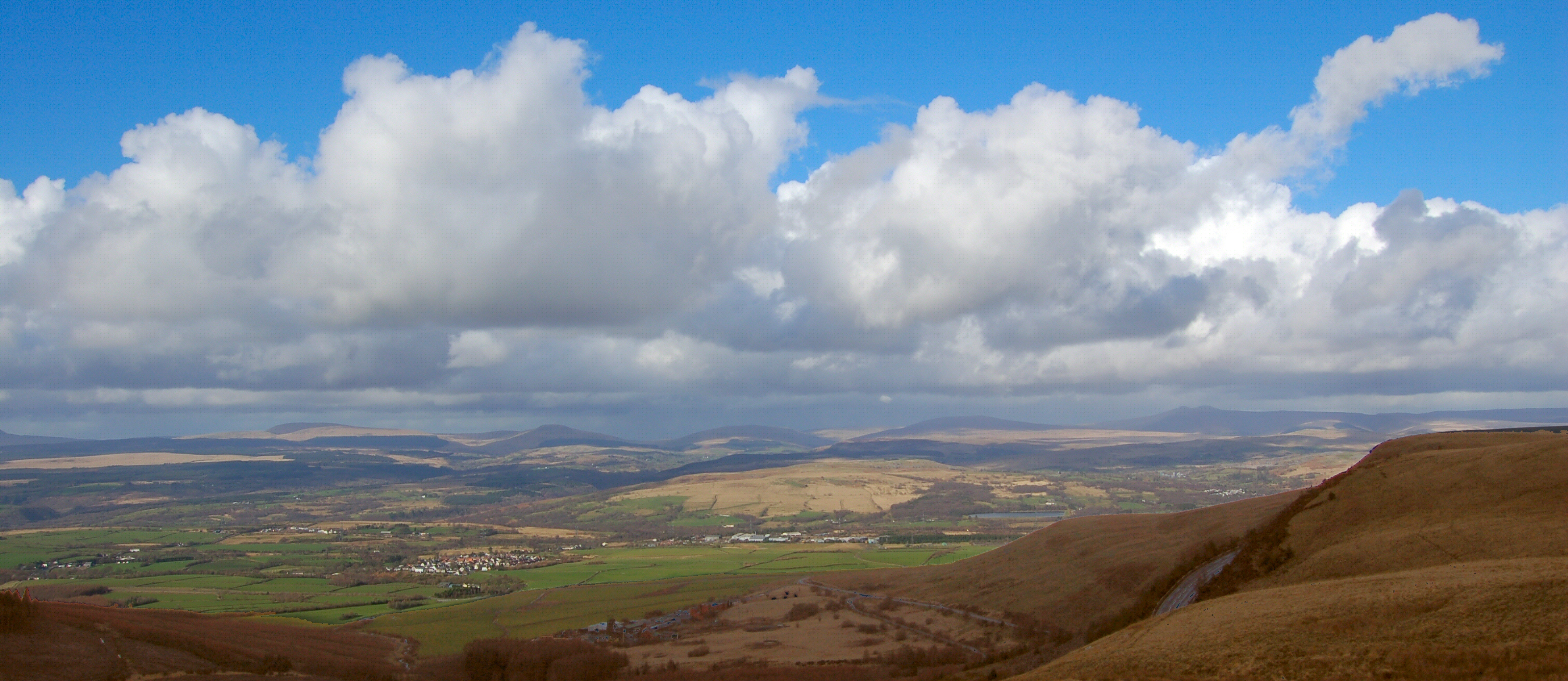 The Brecon Beacons, seen from the South.